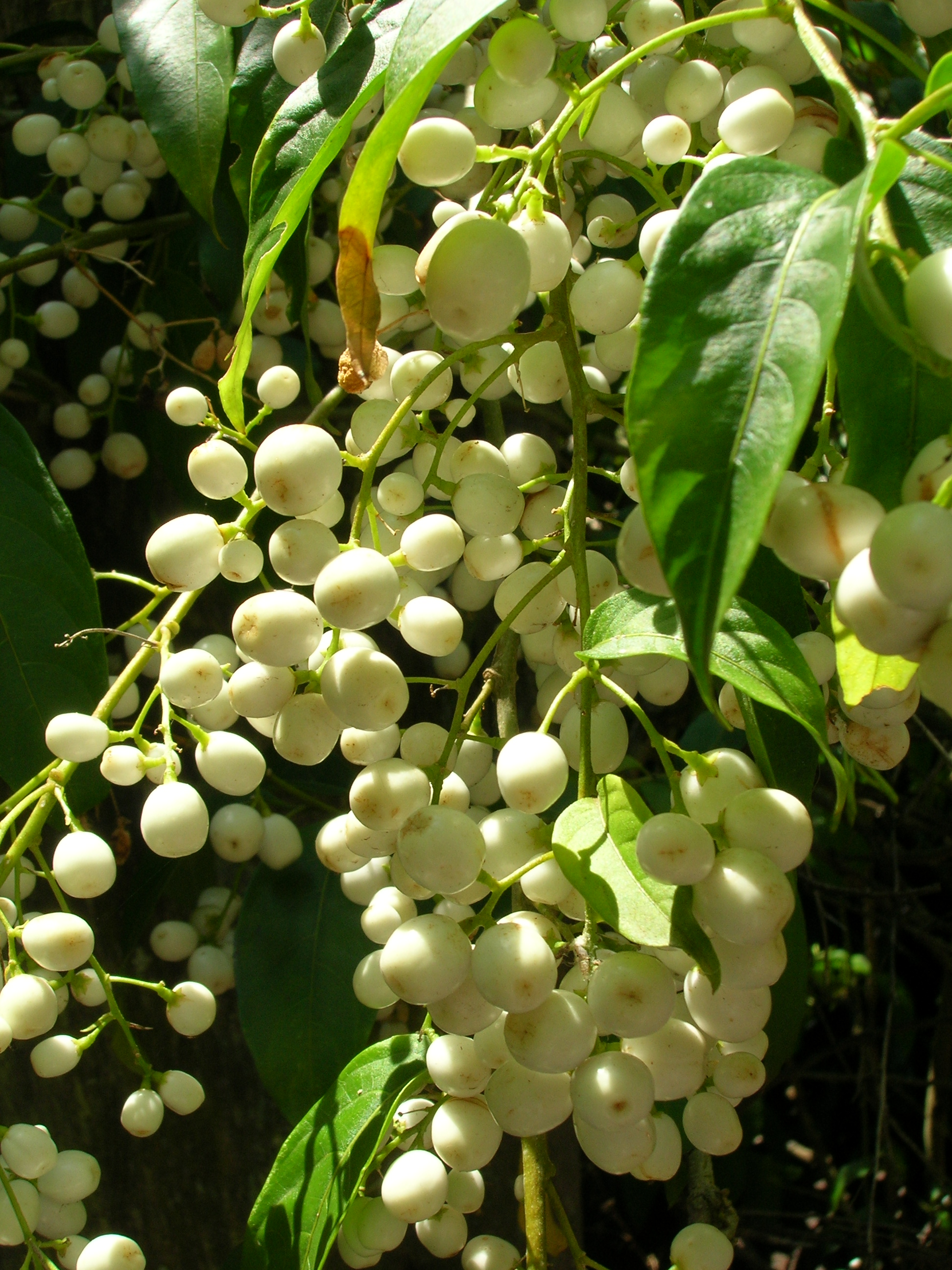 Cestrum nocturnum (fruit). Location: Maui, Makawao